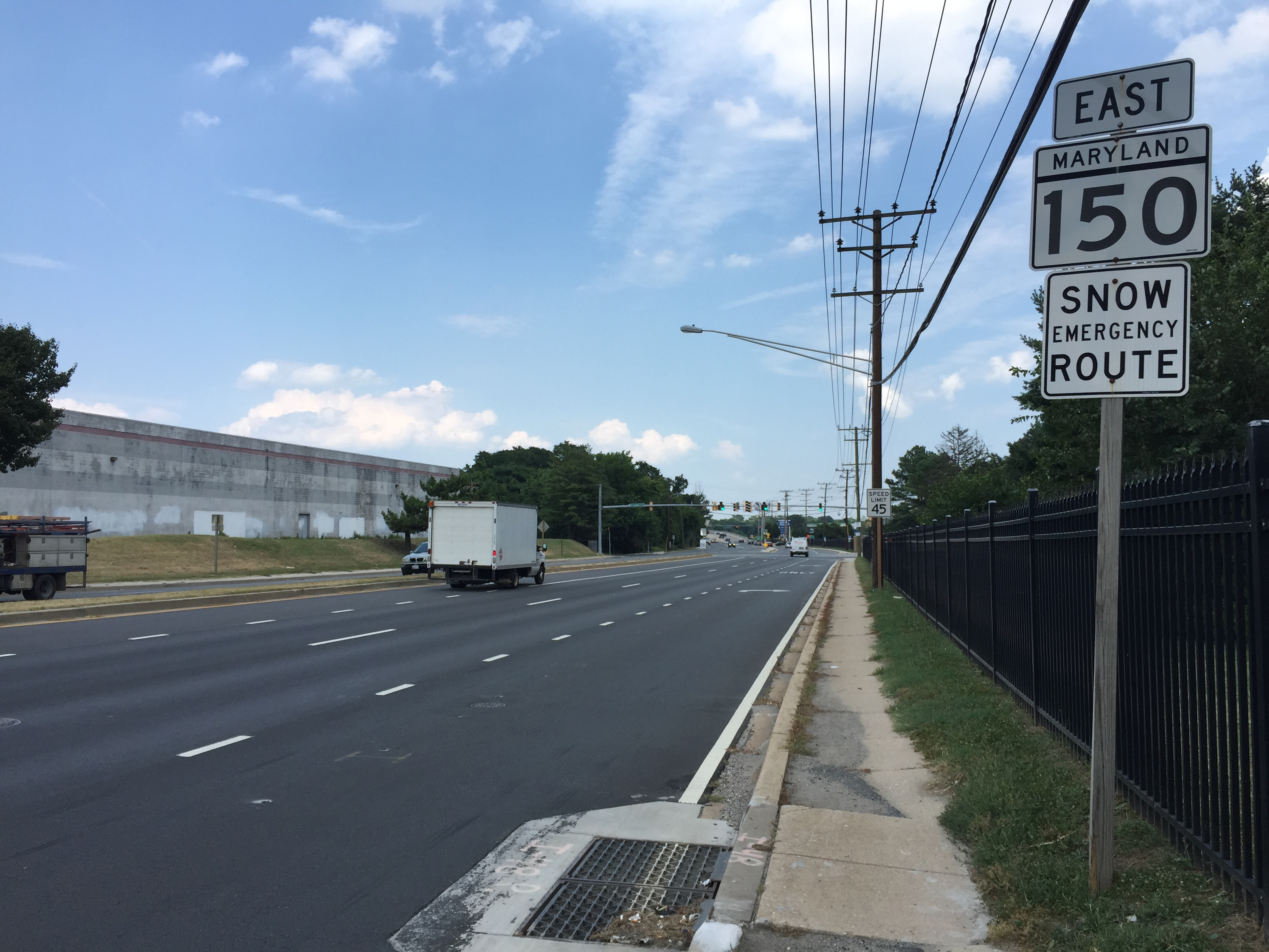 View east along Maryland State Route 150 (Eastern Avenue) just west of Diamond Point Road in Dundalk, Baltimore County, Maryland